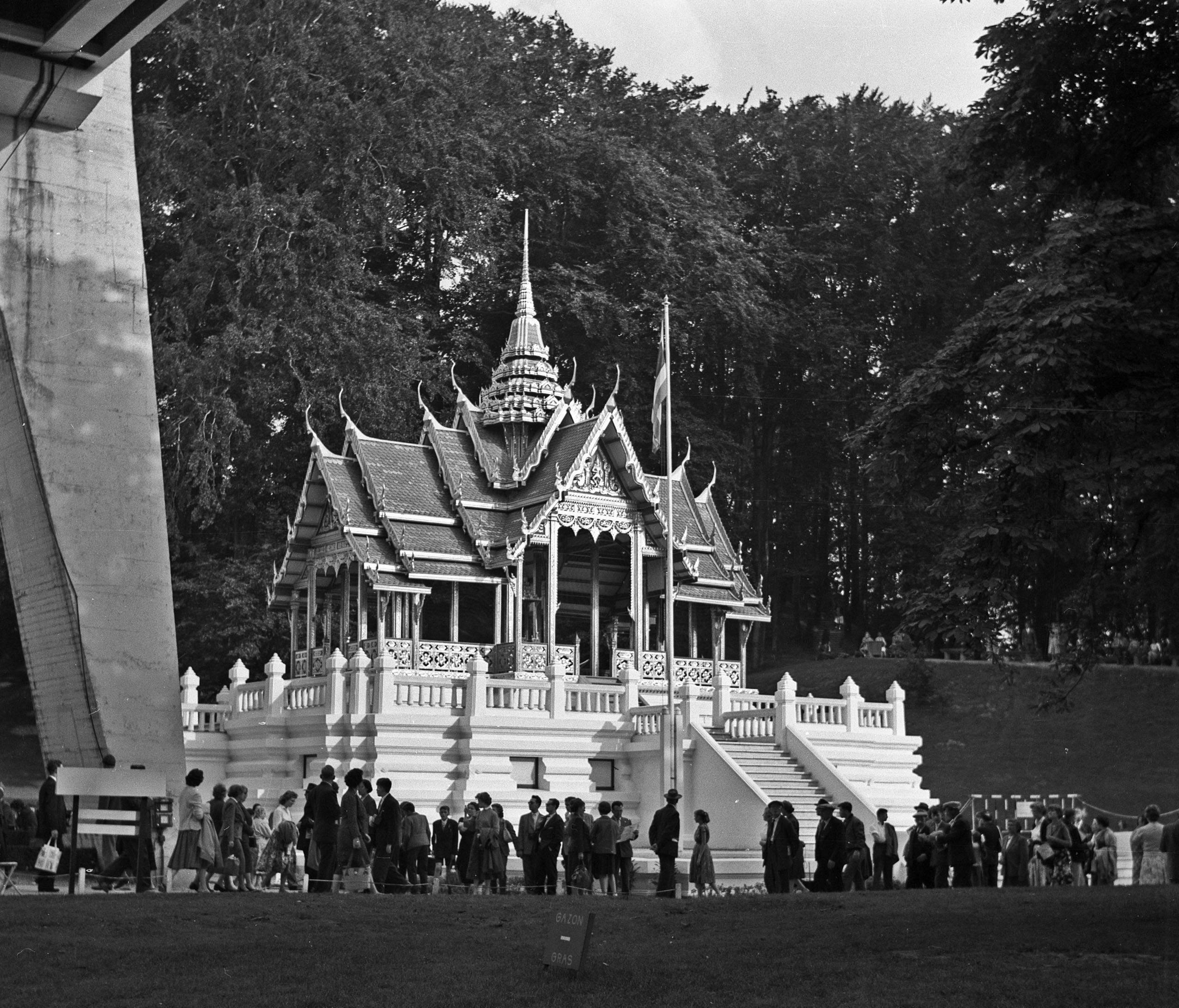 Expo 1958 building of Thailand